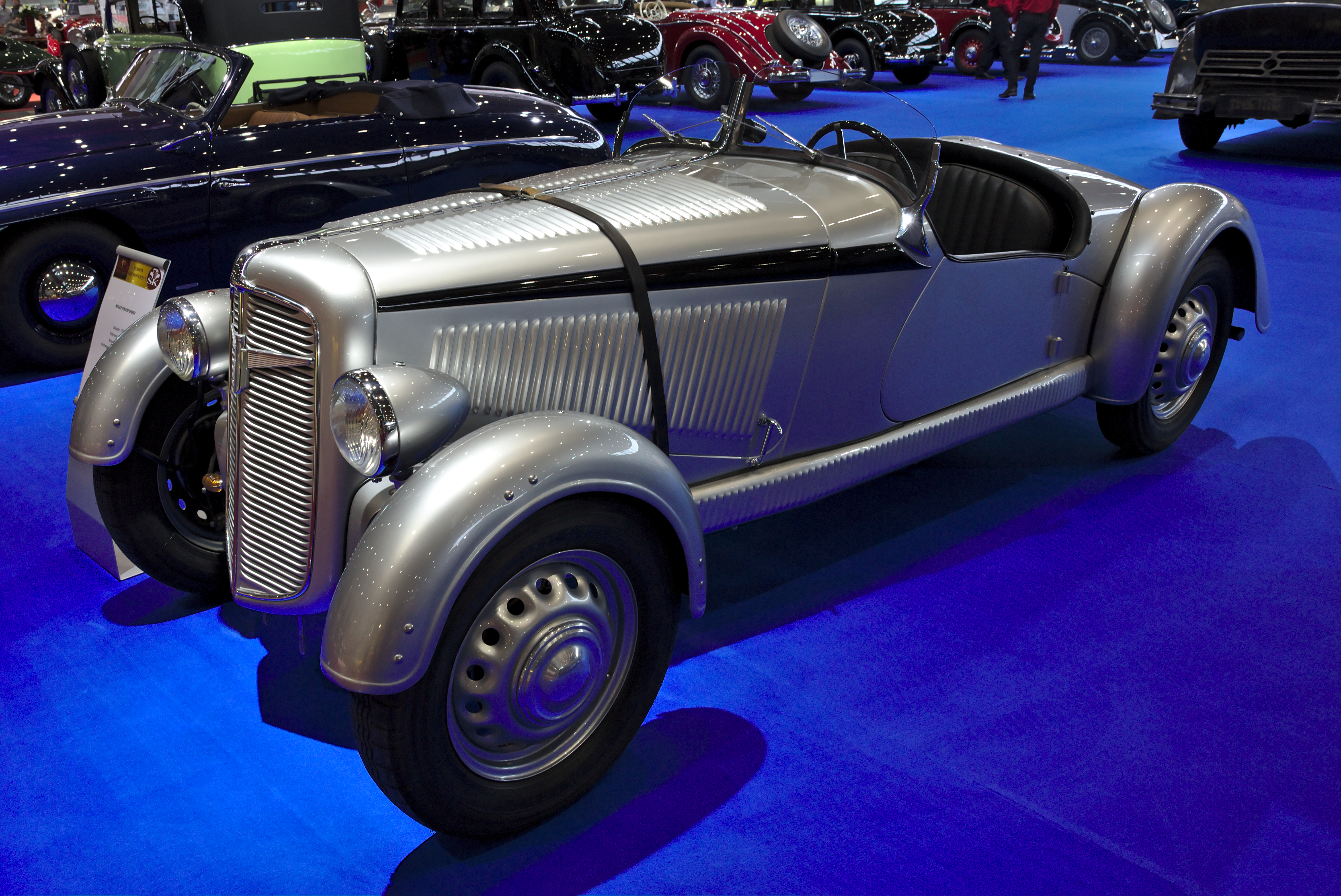 Adler Junior Sport at Retro Classics 2018